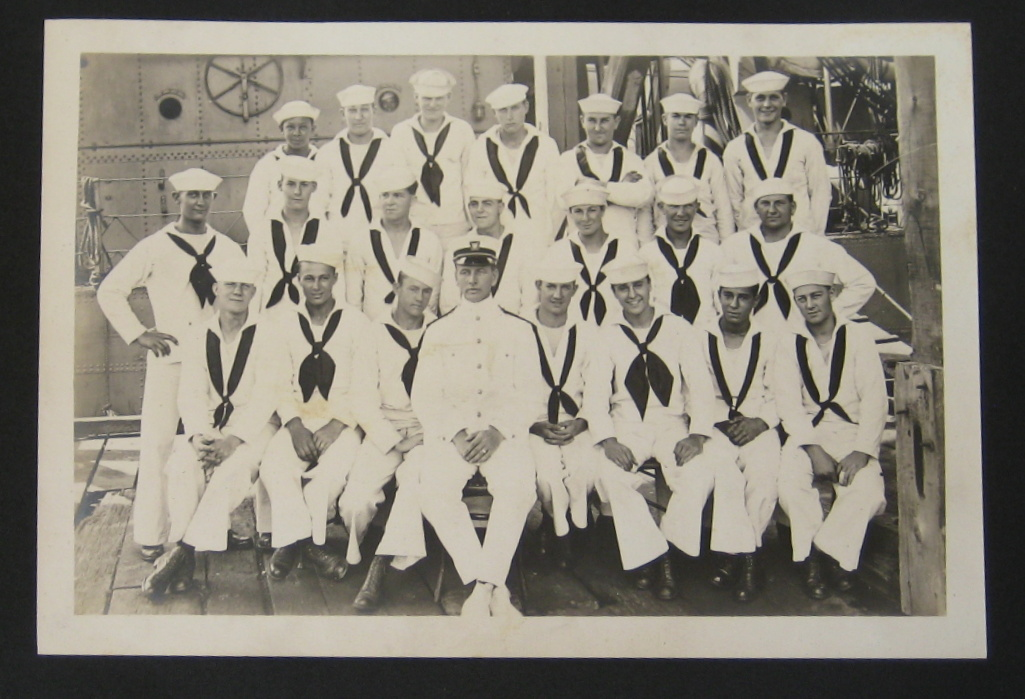 Crew of USCGC Earp - 1921